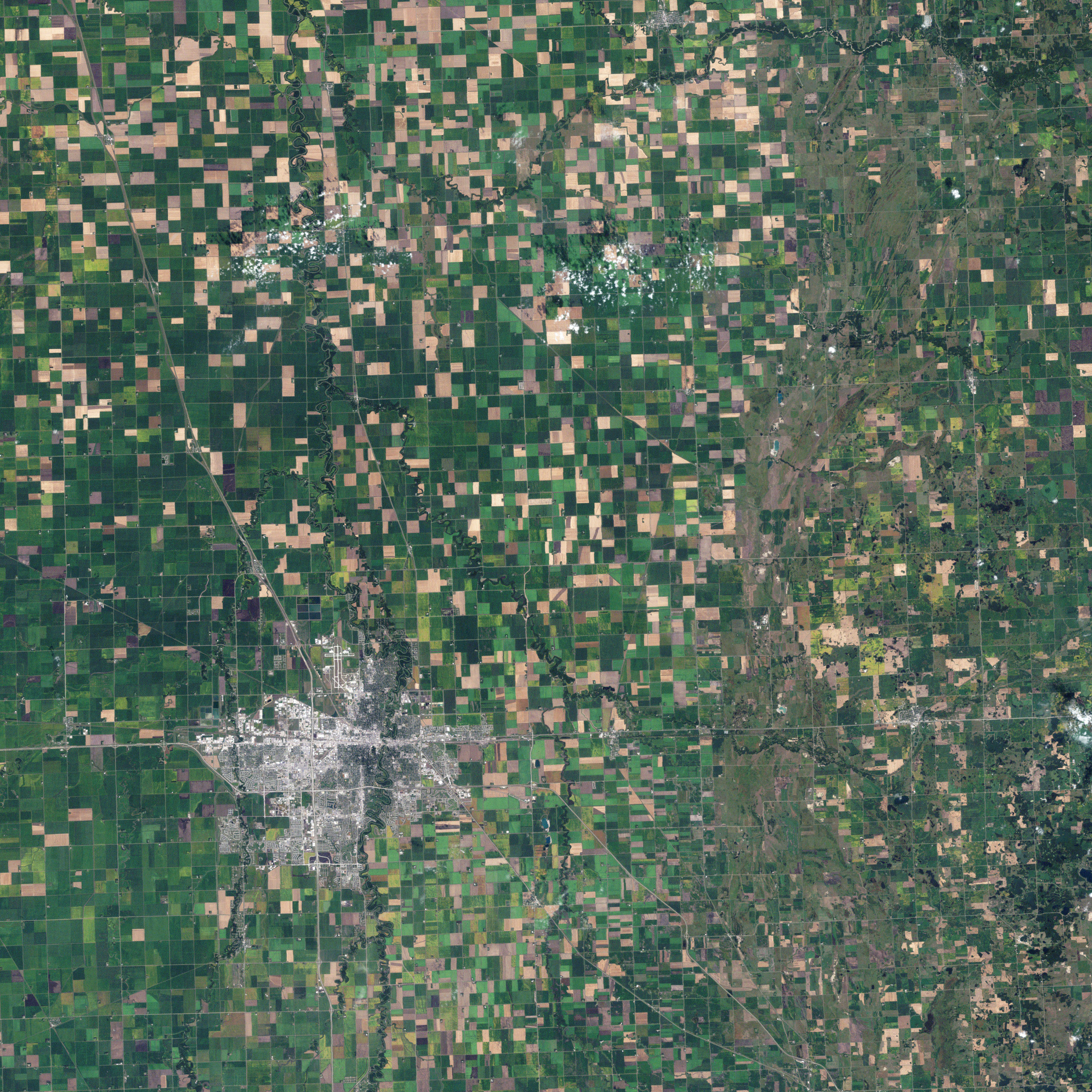 On September 10, 2009, Landsat scanned this true-color image of farmland across northwest Minnesota, including a view of Noreen Thomas' organic farm on the banks of the Buffalo River near the middle of the image. From space this farm looks like a patchwork quilt. Fields change hue with the season and with the alternating plots of organic wheat, soybeans, corn, alfalfa, flax, or hay. Lush green fields dominate the image, though some crops have already been harvested leaving squares of tan and brown.